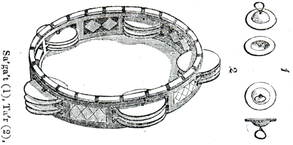 Two sets of brass finger cymbals, and a tambourine. Engraving (prints) Sa'ga't (1), Ta'r (2)